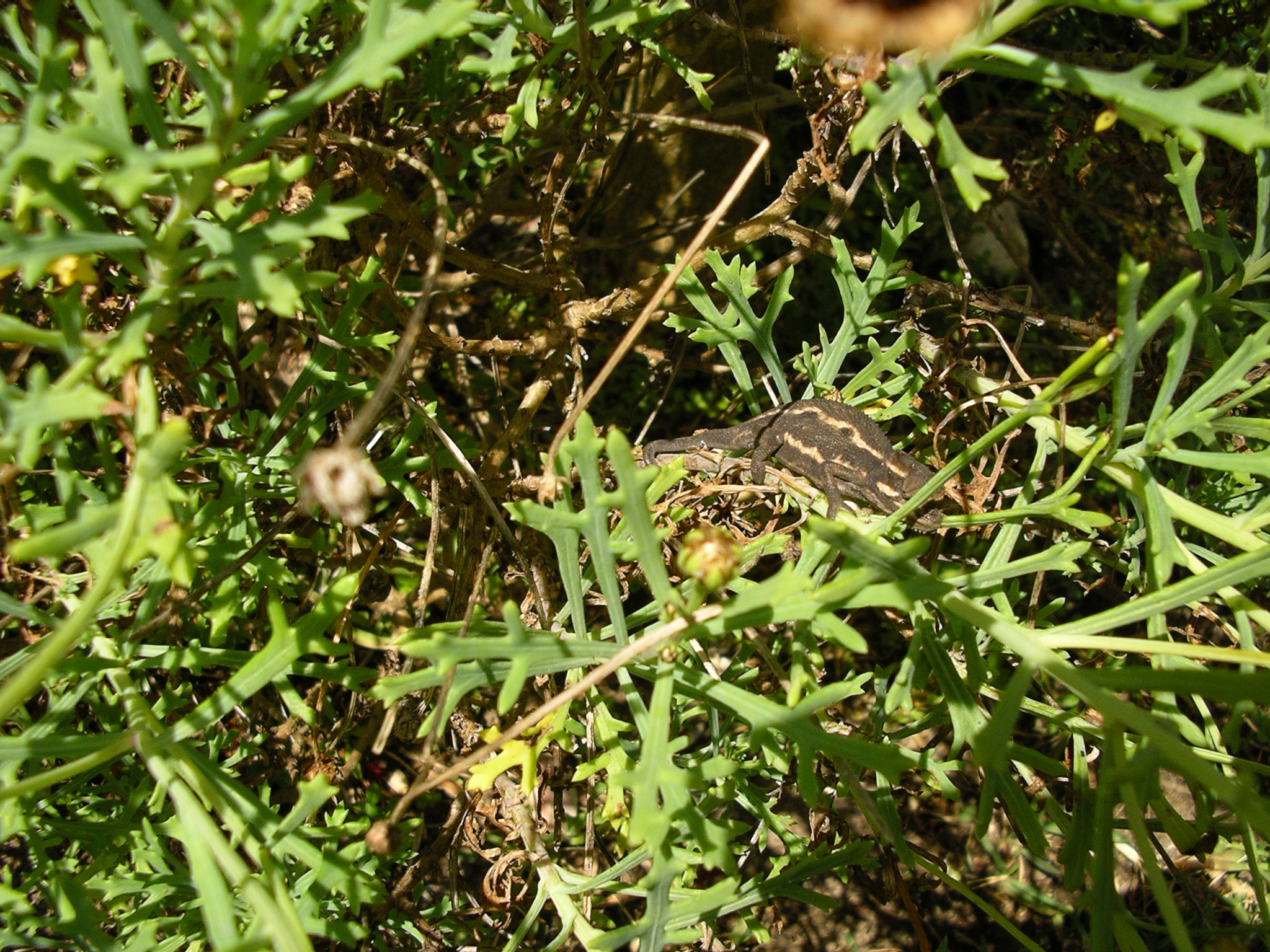 Author: Michael Wood (me) Taken in my garden in Kenilworth, Cape Town, South Africa.